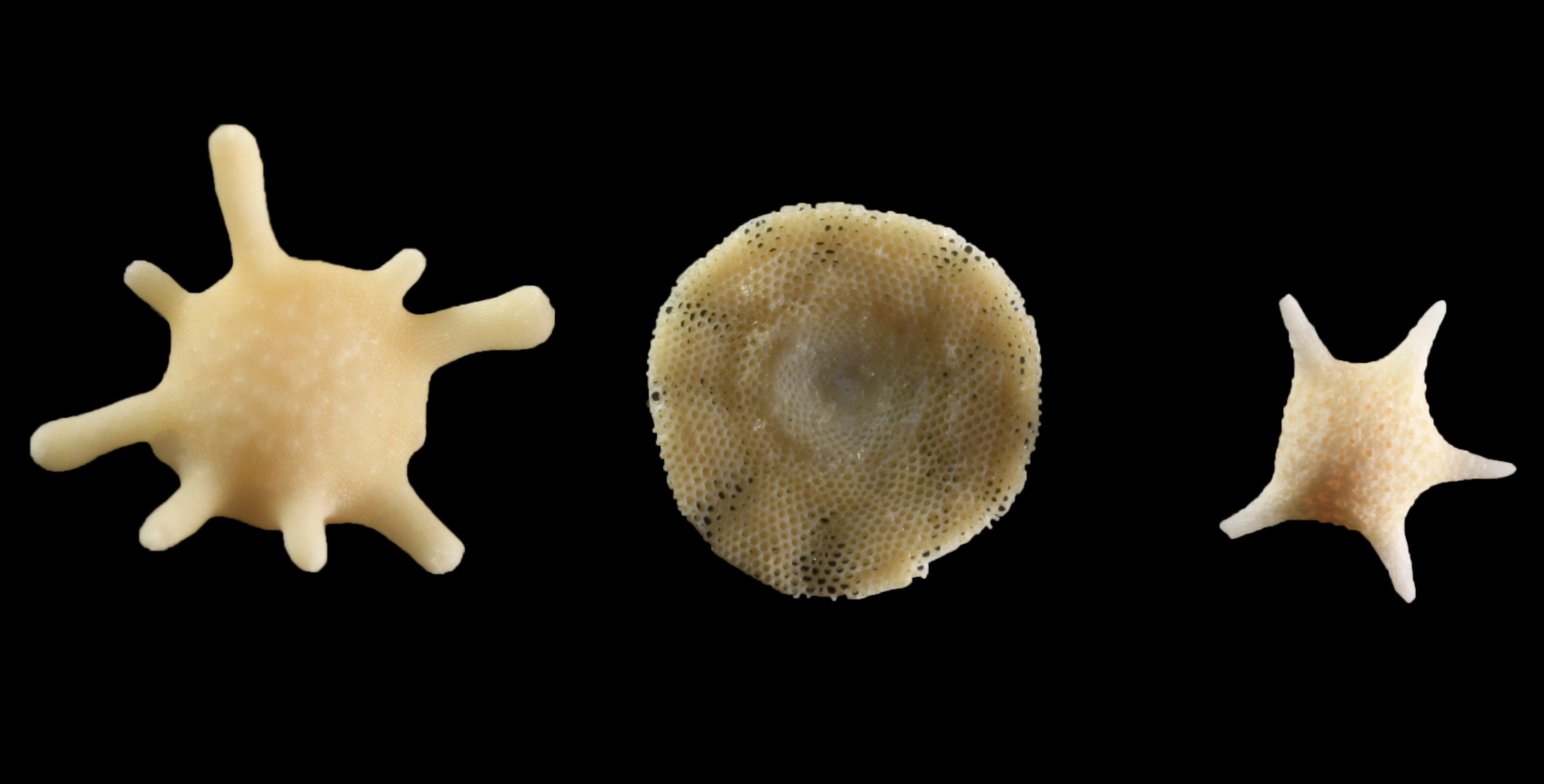 Foraminifera are microscopic marine amoeboid protists with calcareous tests. Genera Calcarina, Sorites, and Baculogypsina from left to right. The width of the view is 10 mm.